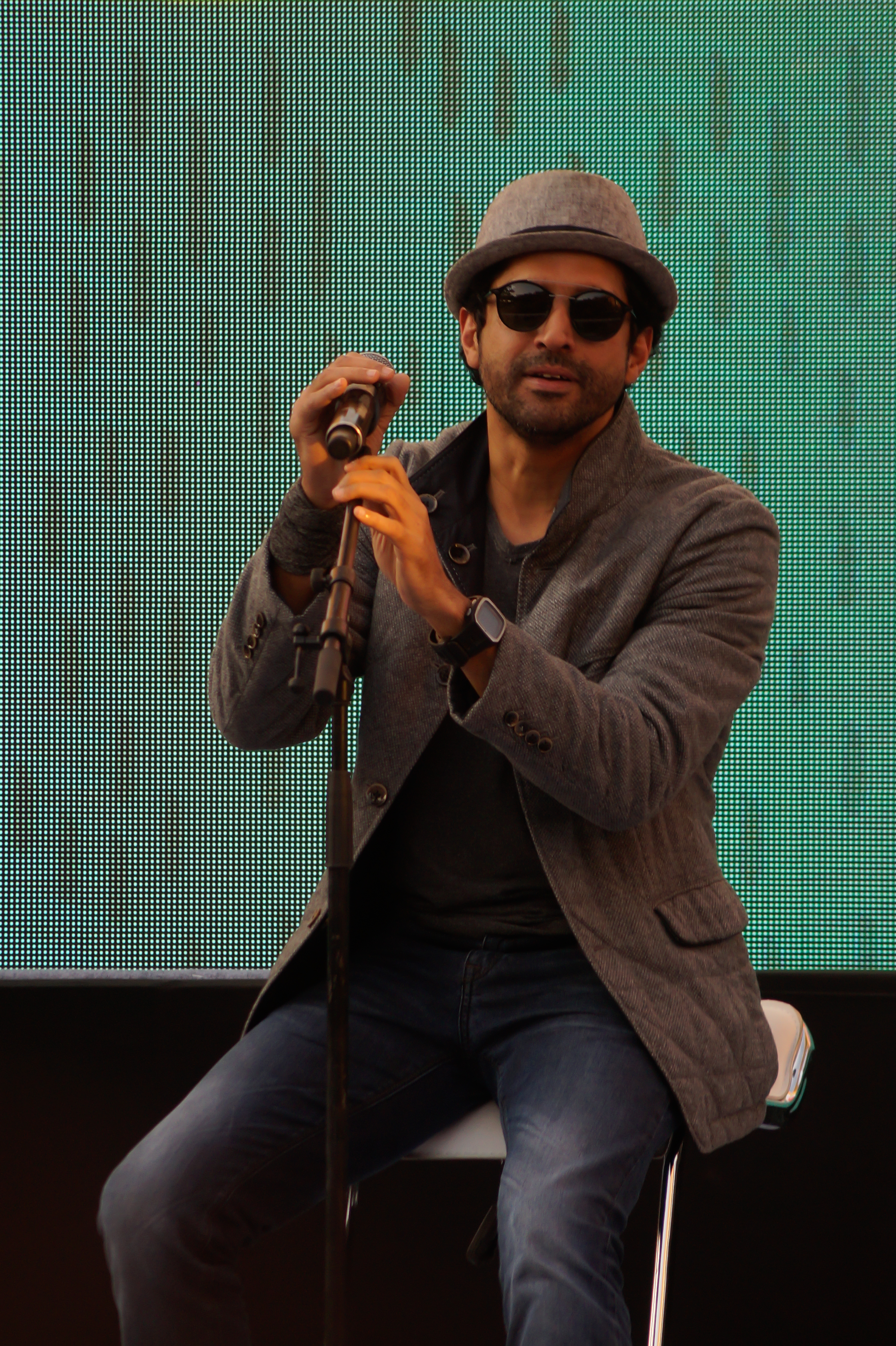 Farhan Akhtar at Times Litfest 2016, New Delhi